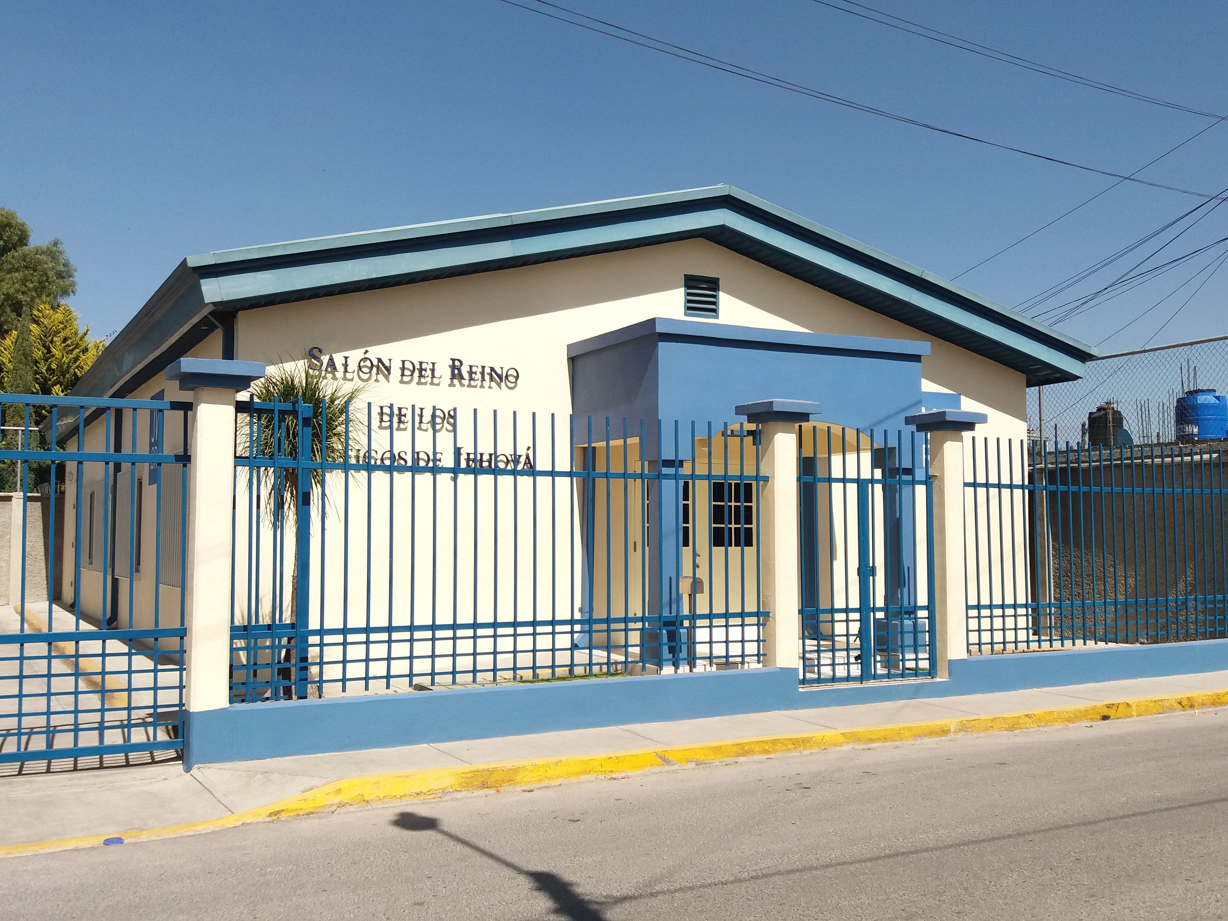 Kingdom Hall of Jehovah's Witnesses in Tocuila (2017)